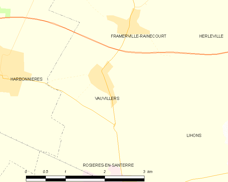 Map of French municipality Vauvillers